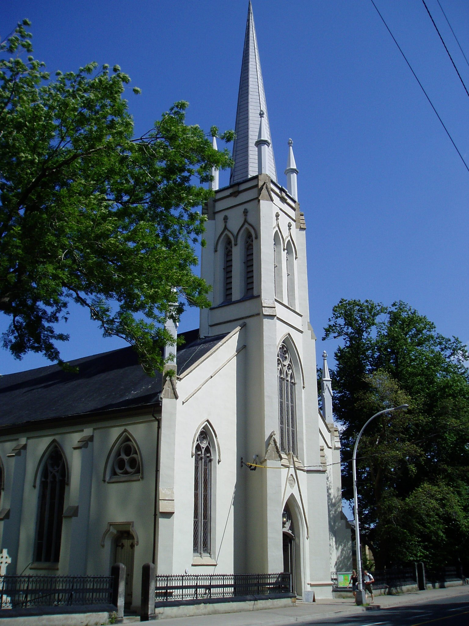 St. Matthew's United Church, Halifax, Nova Scotia, Canada. Taken by SimonP